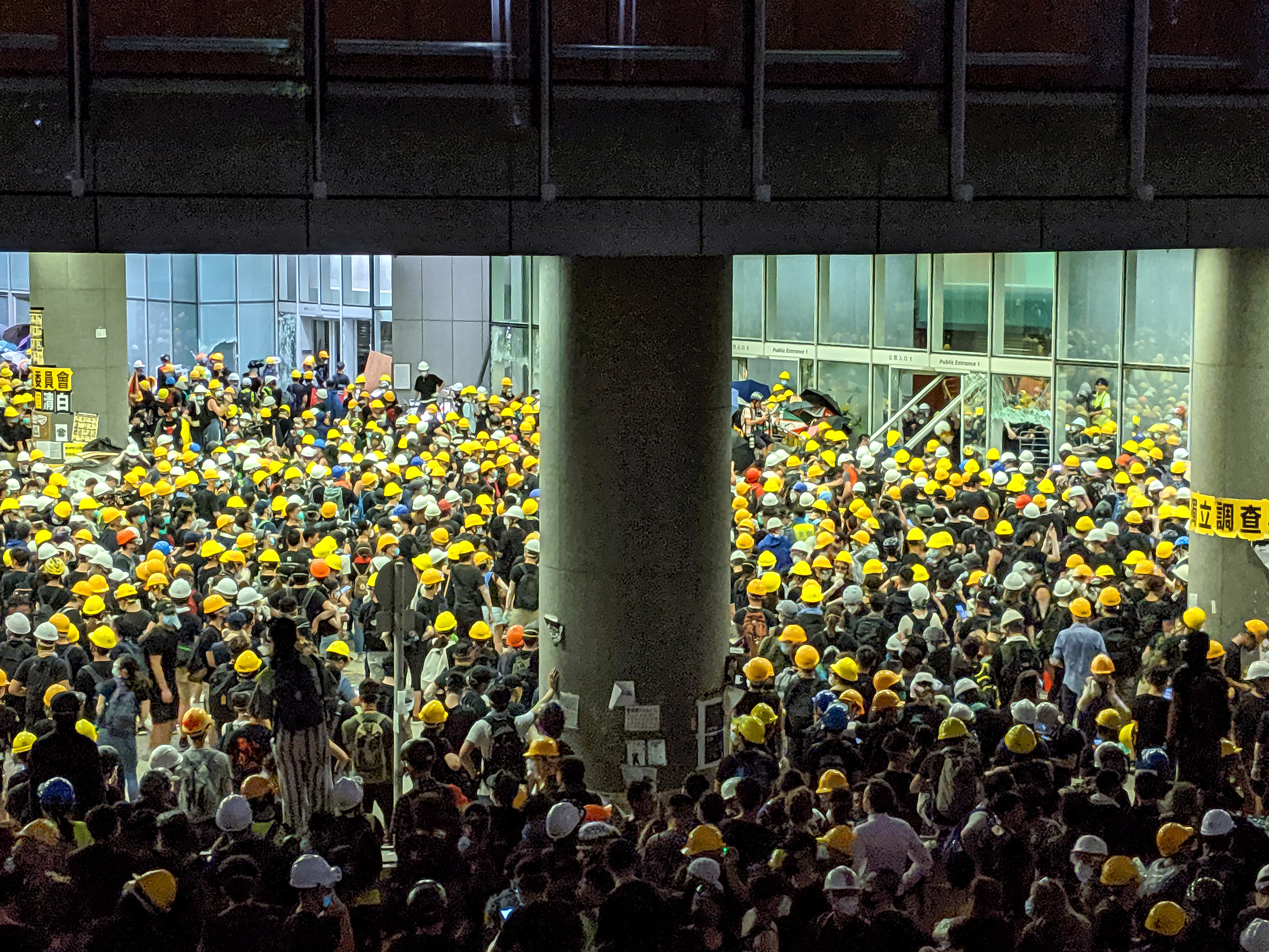 2019 Hong Kong anti-extradition law protest on 1 July 2019, captured by Studio Incendo from Flickr.